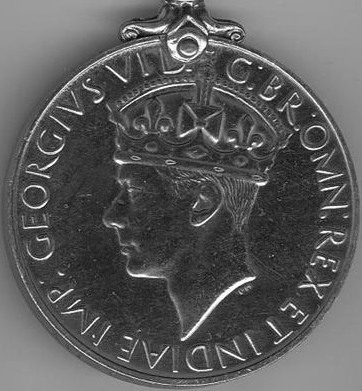 Australia Service Medal 1939-45 obverse